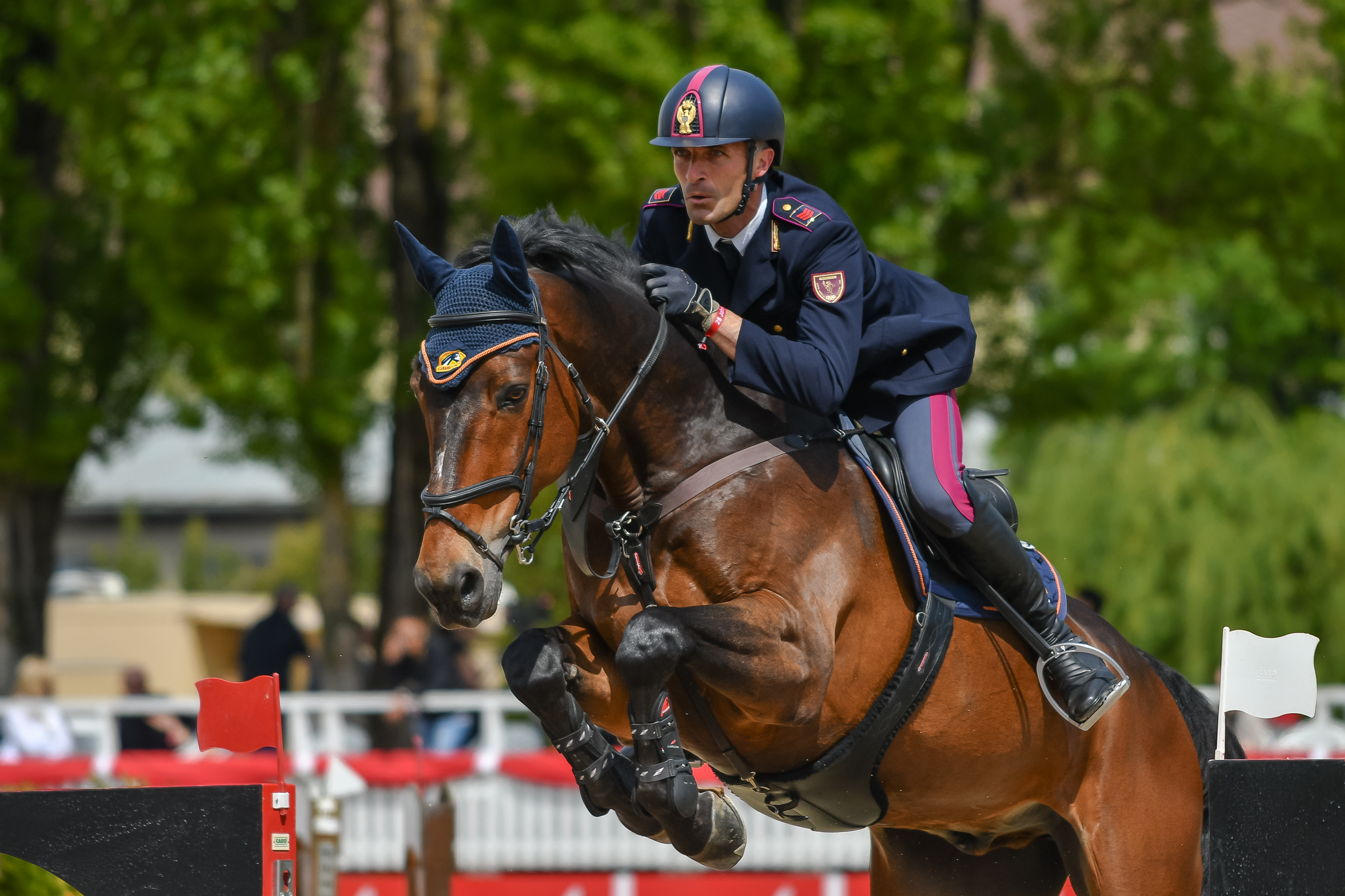 Linzer Pferdefestival / SILVER TOUR / May 4, 2017/ Int. jumping competition against the clock (1.40 m) / Table A, FEI Art. 238.2.1 - CSIO4* - 1 horse per athlete / Triomphe van Schuttershof, Davide Sbardella (ITA)